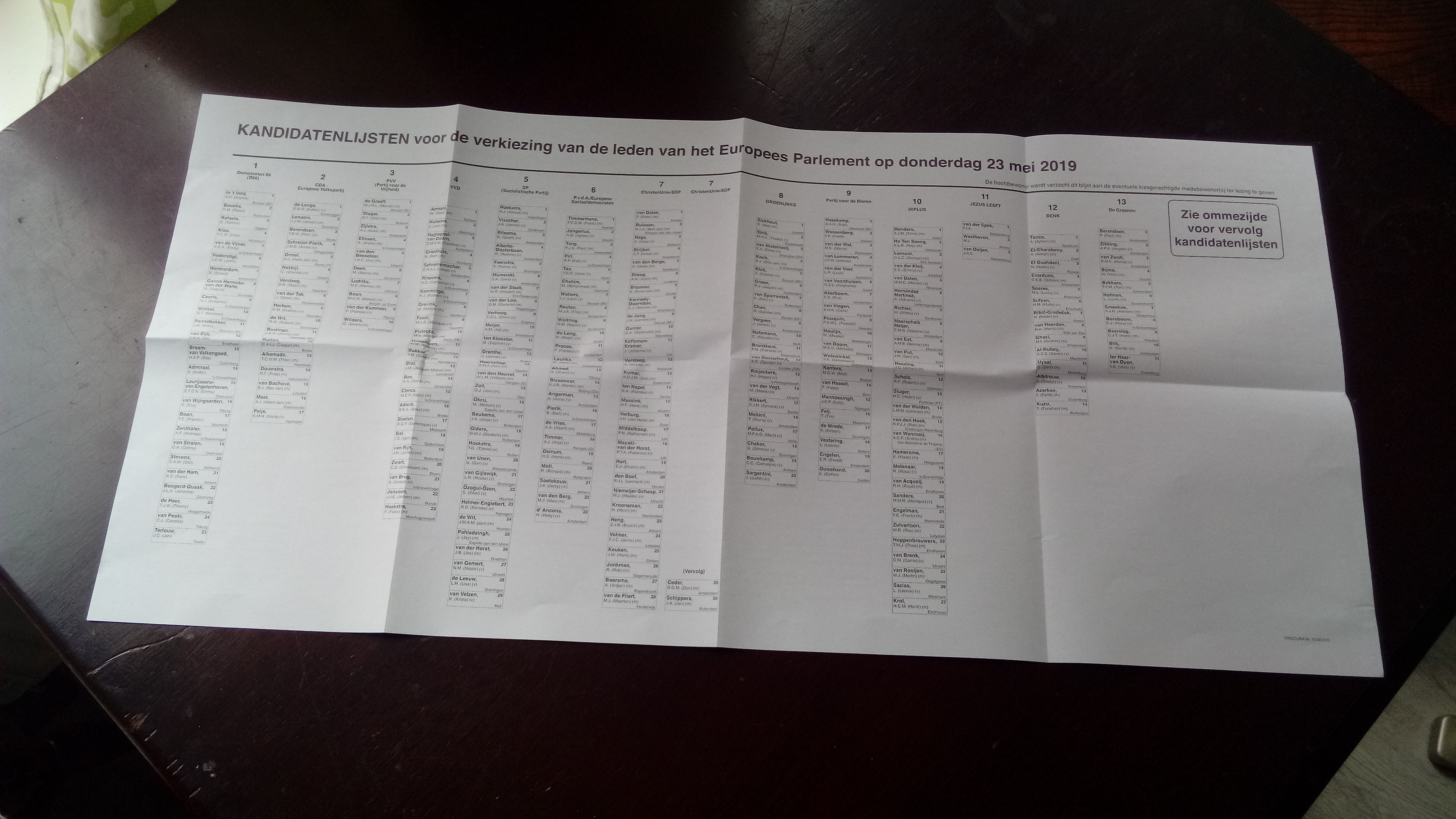 A list of political candidates standing for the European Parliamentary elections 2019 on a list distributed by the Municipality of Pekela in the Groninger village of Oude Pekela.